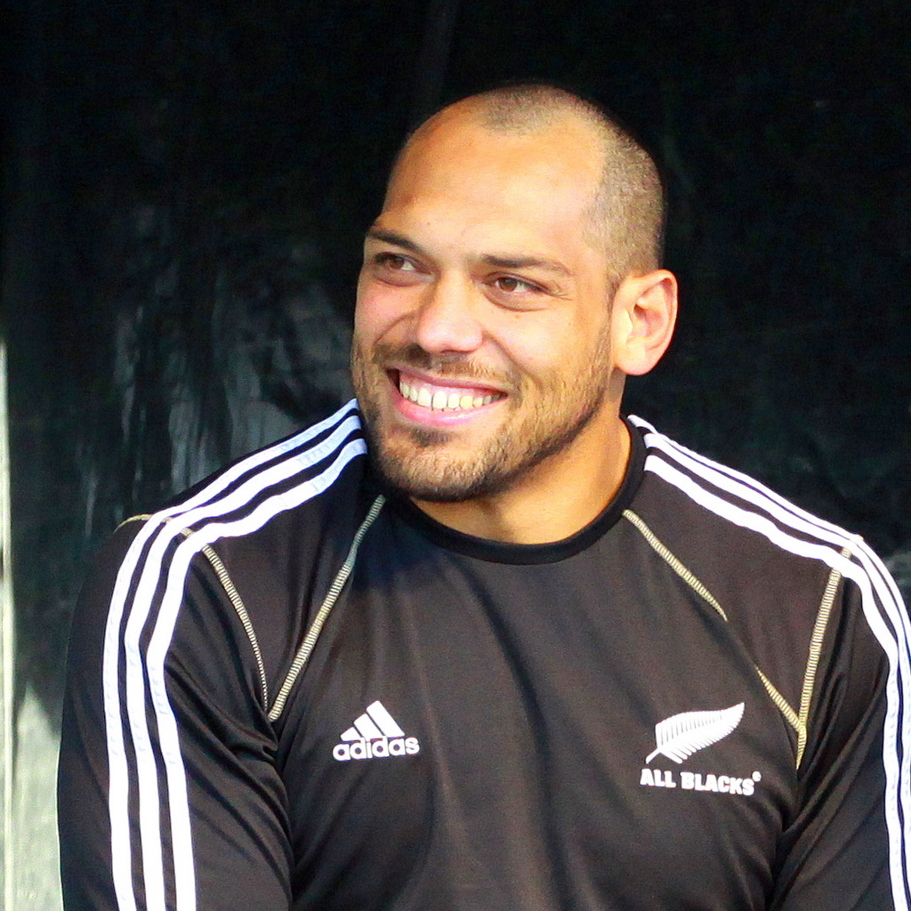 New Zealand rugby union player John Afoa and the rest of the All Blacks visit Christchurch during the Rugby World Cup.